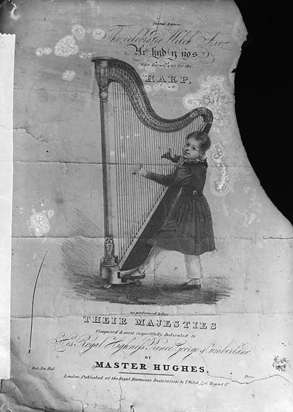 1 negative : glass, dry plate, b&w ; 16.5 x 12 cm.